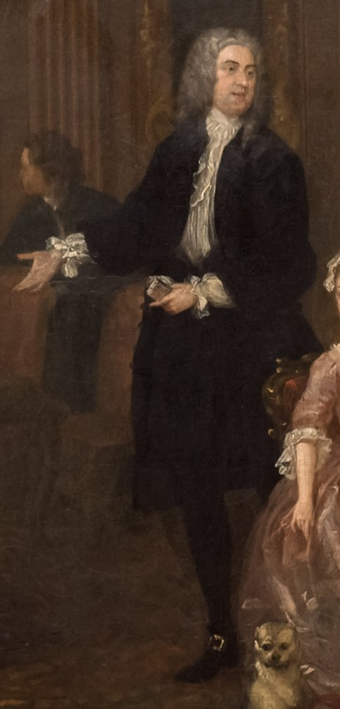 William Wollaston (1693 – 1757) and his family. Now in the New Walk Museum and Art Gallery, Leicester. Key to sitters